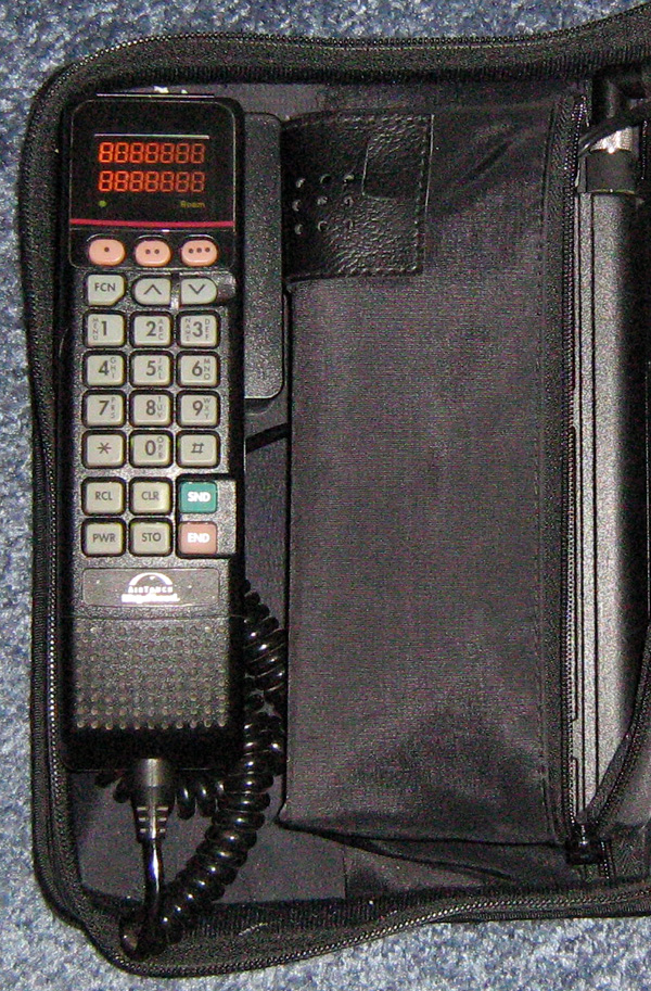 Motorola 2950 Bagphone with Special Edition, 14 character / 2-line display. Part of Ross Padluck's personal collection.